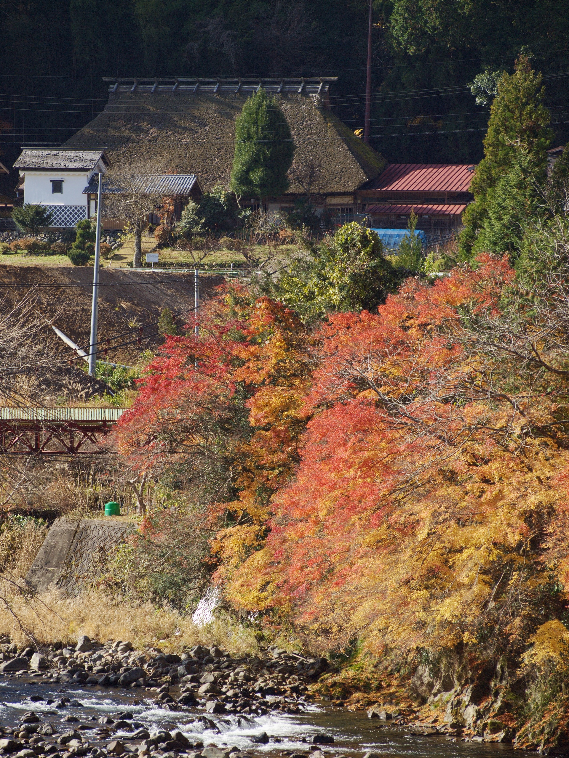 Kamikurogawa, Toyone, Kitashitara District, Aichi Prefecture 449-0404, Japan